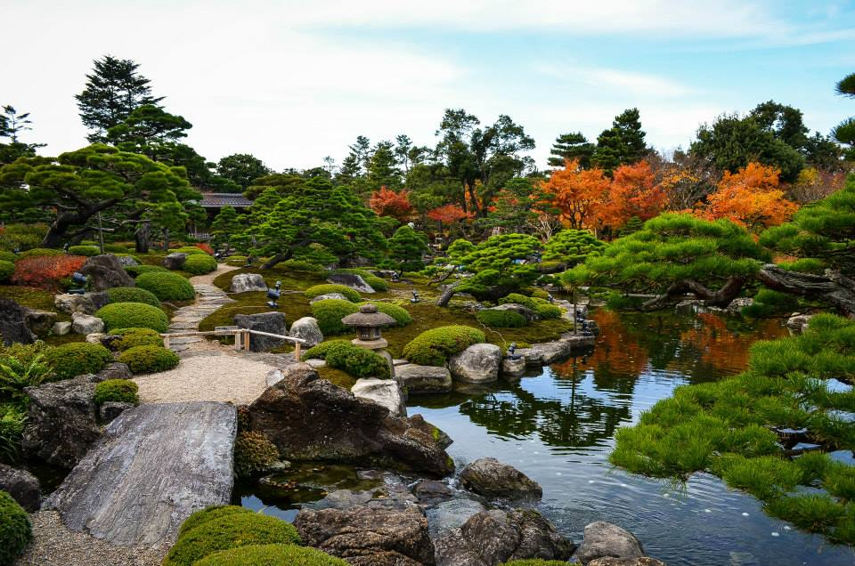 Yuushien garden